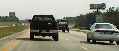 One of a series of 55 MPH speed limit signs on I-45 southbound at the Montgomery County border. This is many miles from the outer fringe of northern Houston-area development. Notice the unusual (for Texas) placement of speed limit signs on both sides of the roadway. Picture taken by Aren Cambre on 8-30-02.